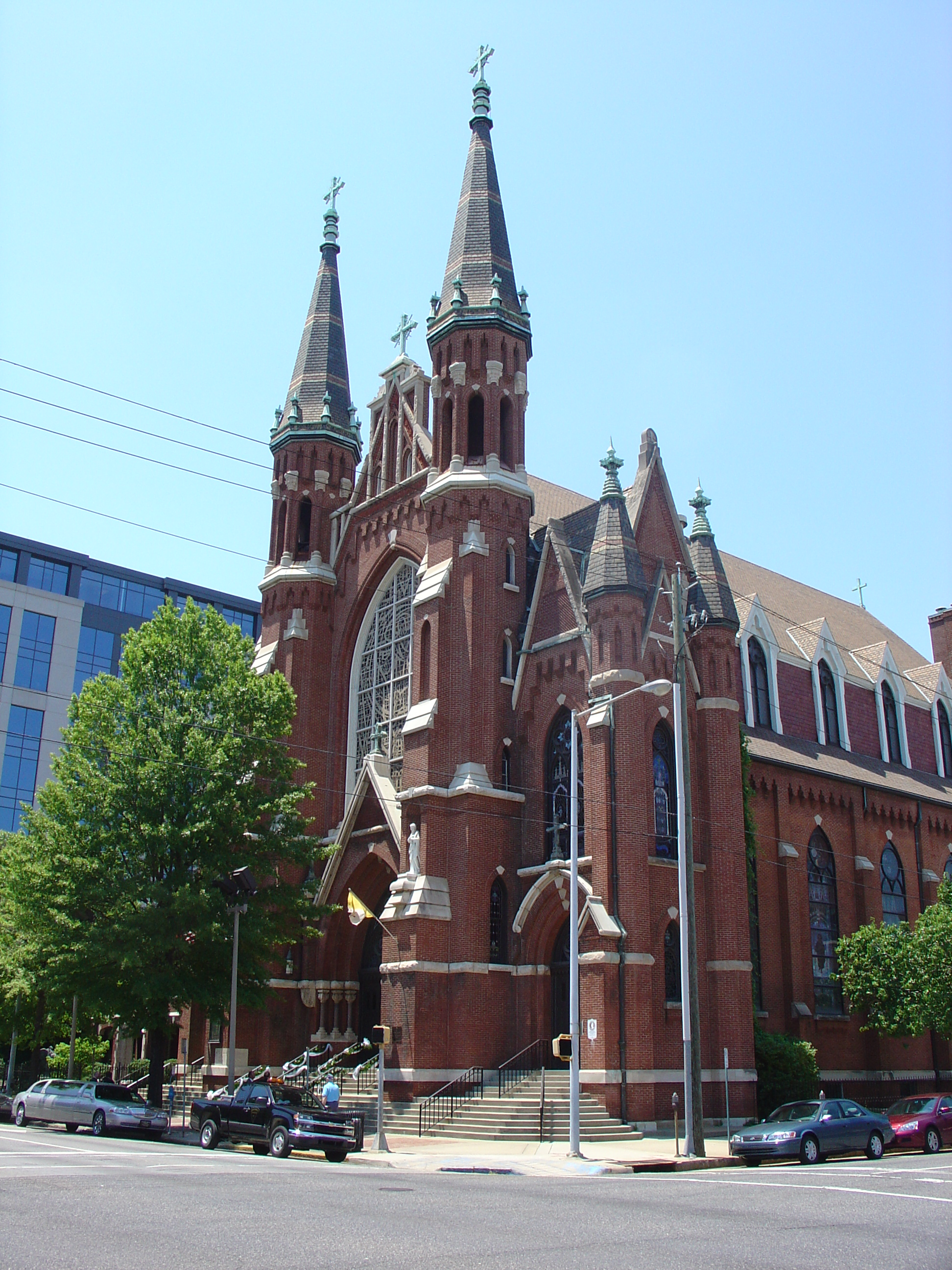 The Cathedral of St. Paul viewed from the southeast.